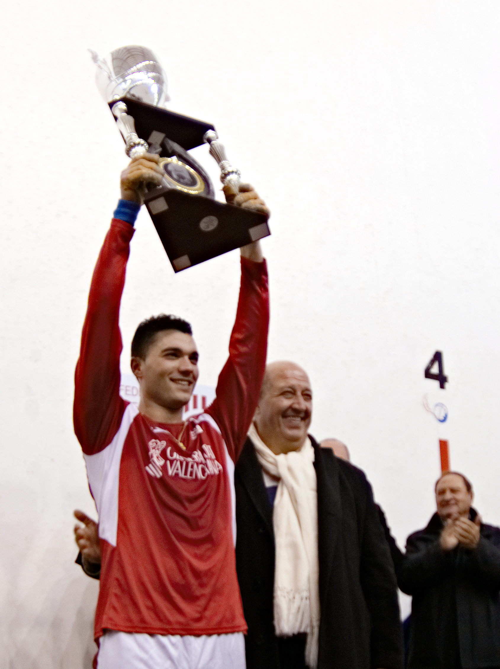 Valencian pilota player Julio Marrahí right after being awarded winner of the 28th Raspall One-on-One by Valencian Handball Federation's president Daniel Sanjuan.